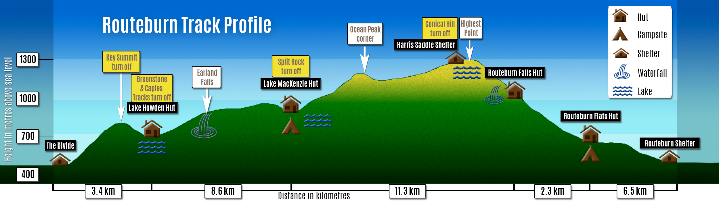 Routeburn Track Profile (A New Zealand tramping/hiking track) including distance and elevation, with huts and shelters.